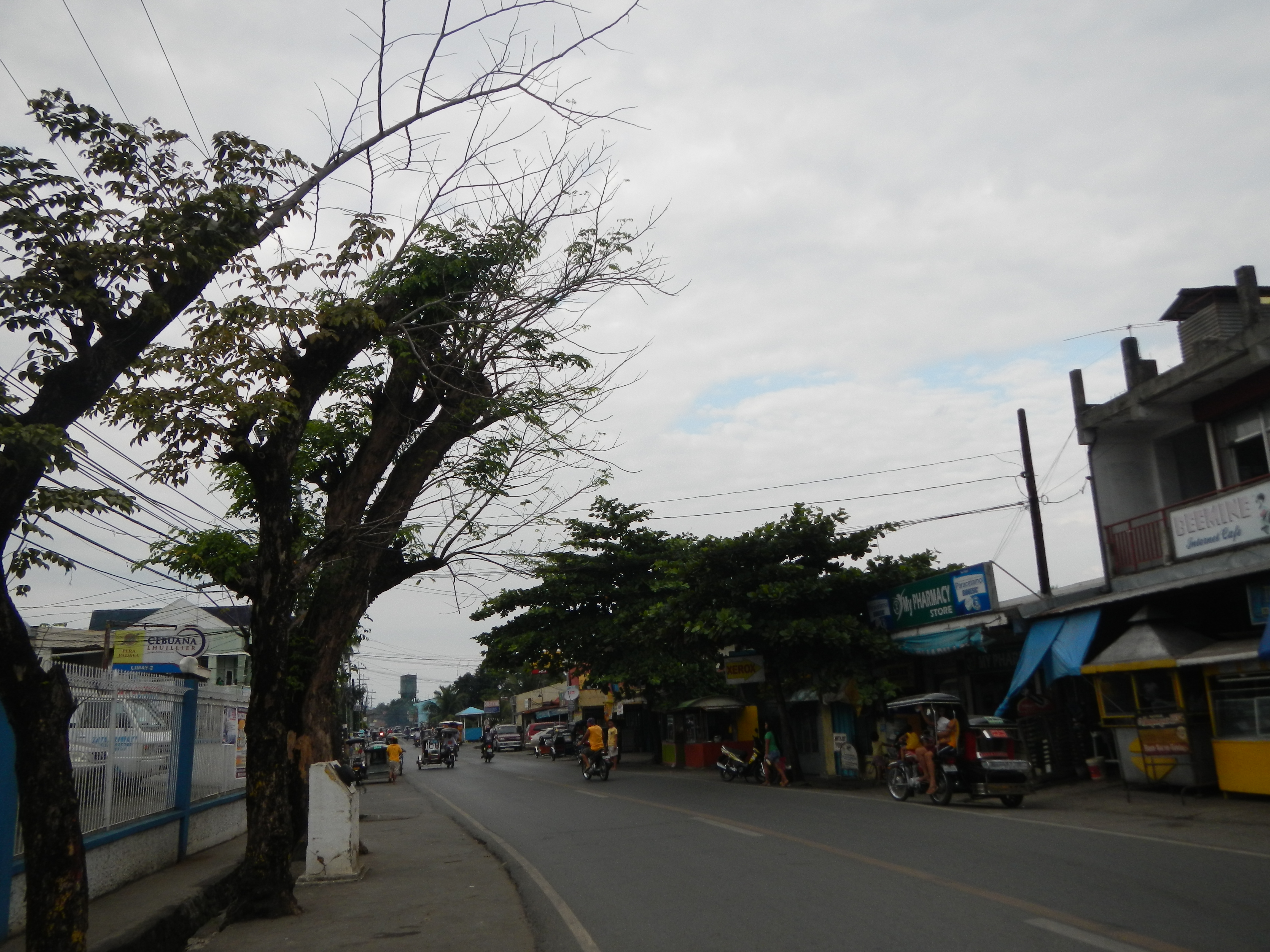 [1]Limay, Bataan[2][3][4]Coordinates: 14°32'33"N 120°32'40"E